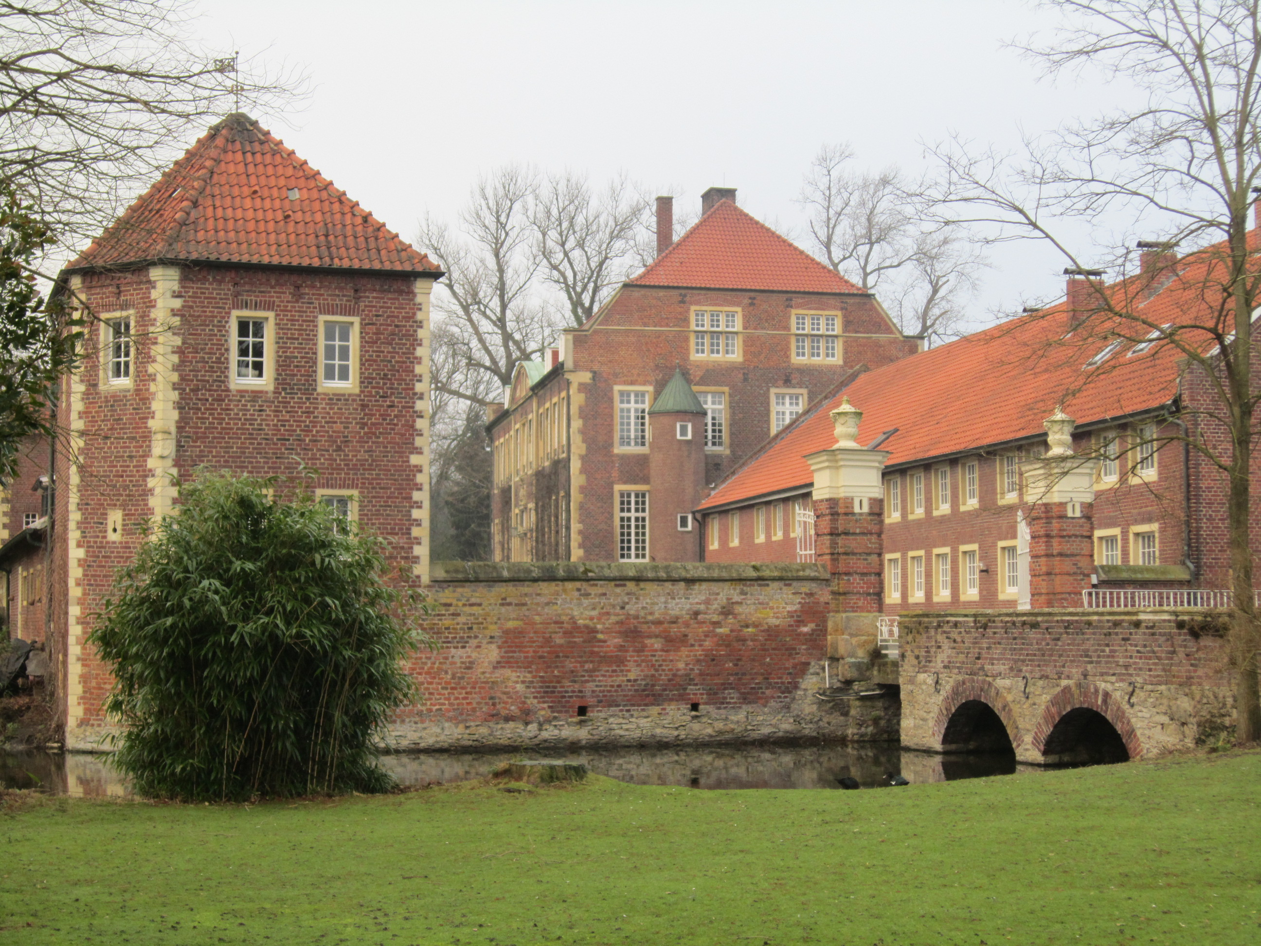 Water castle Wilkinghege in Münster / Westphalia